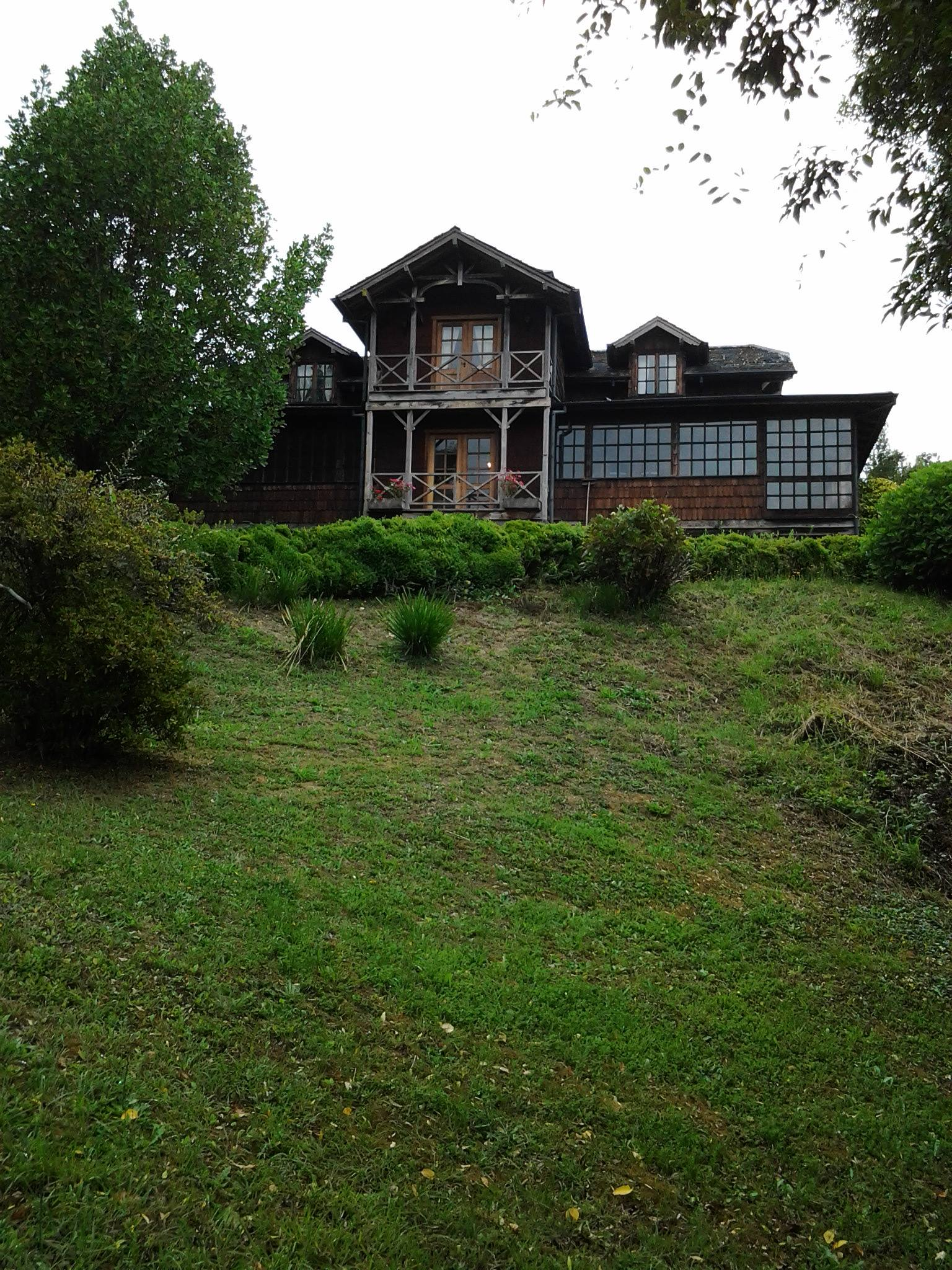 Museo Colonial Alemán de Frutillar